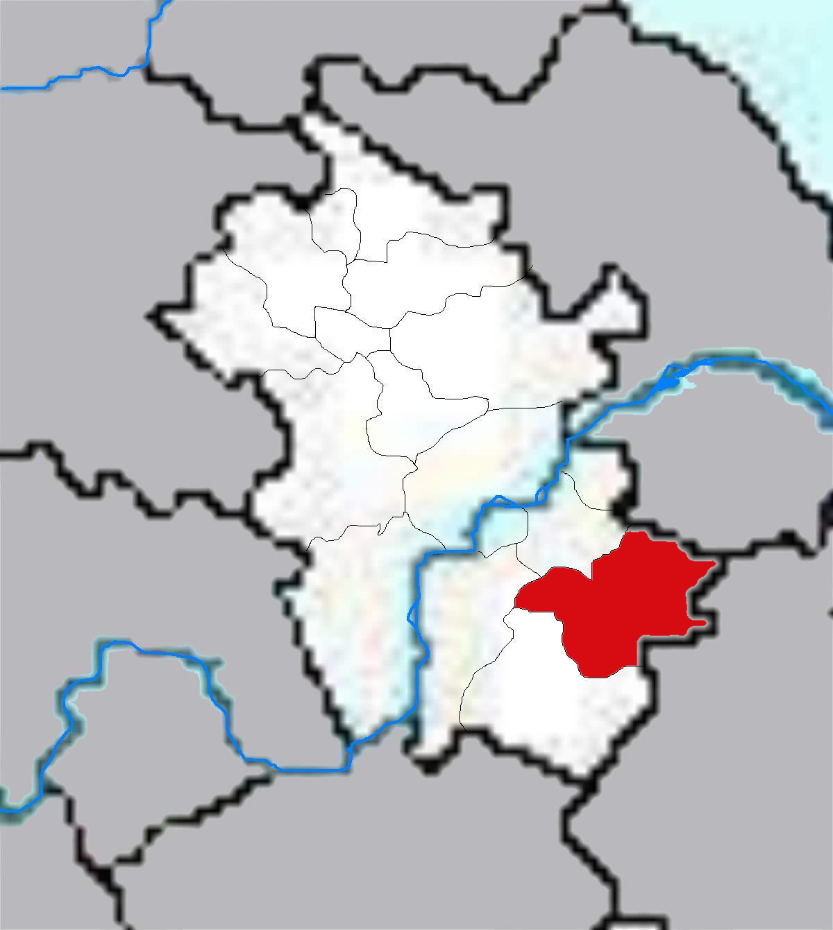 Maps of Anhui Province of China